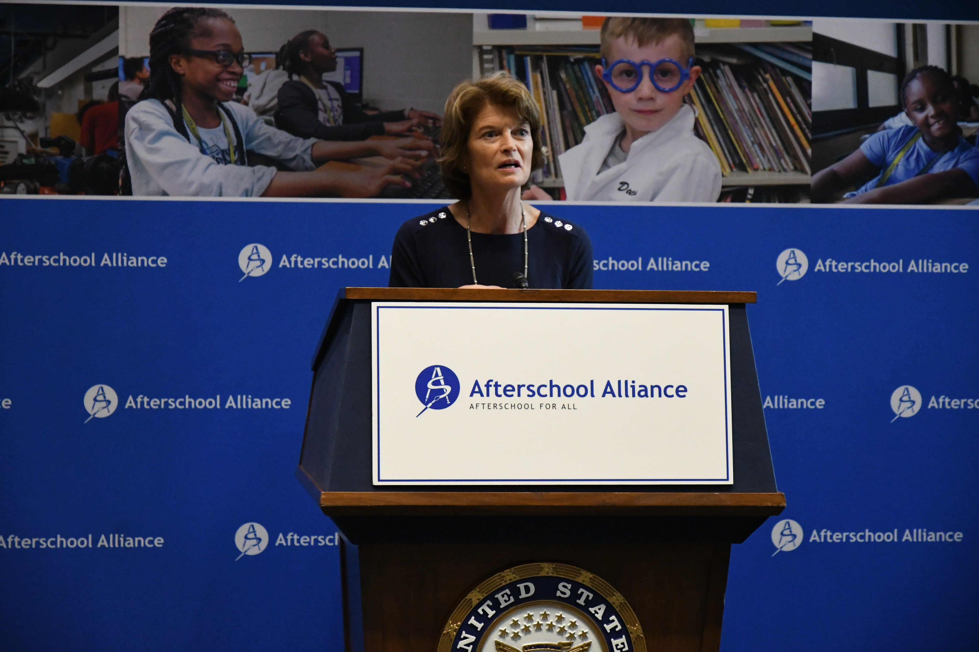 I was pleased to again join supporters of afterschool programs from across the country for the annual Afterschool for All Challenge Showcase, which highlights some of the innovative and challenging projects students engage in during after school.